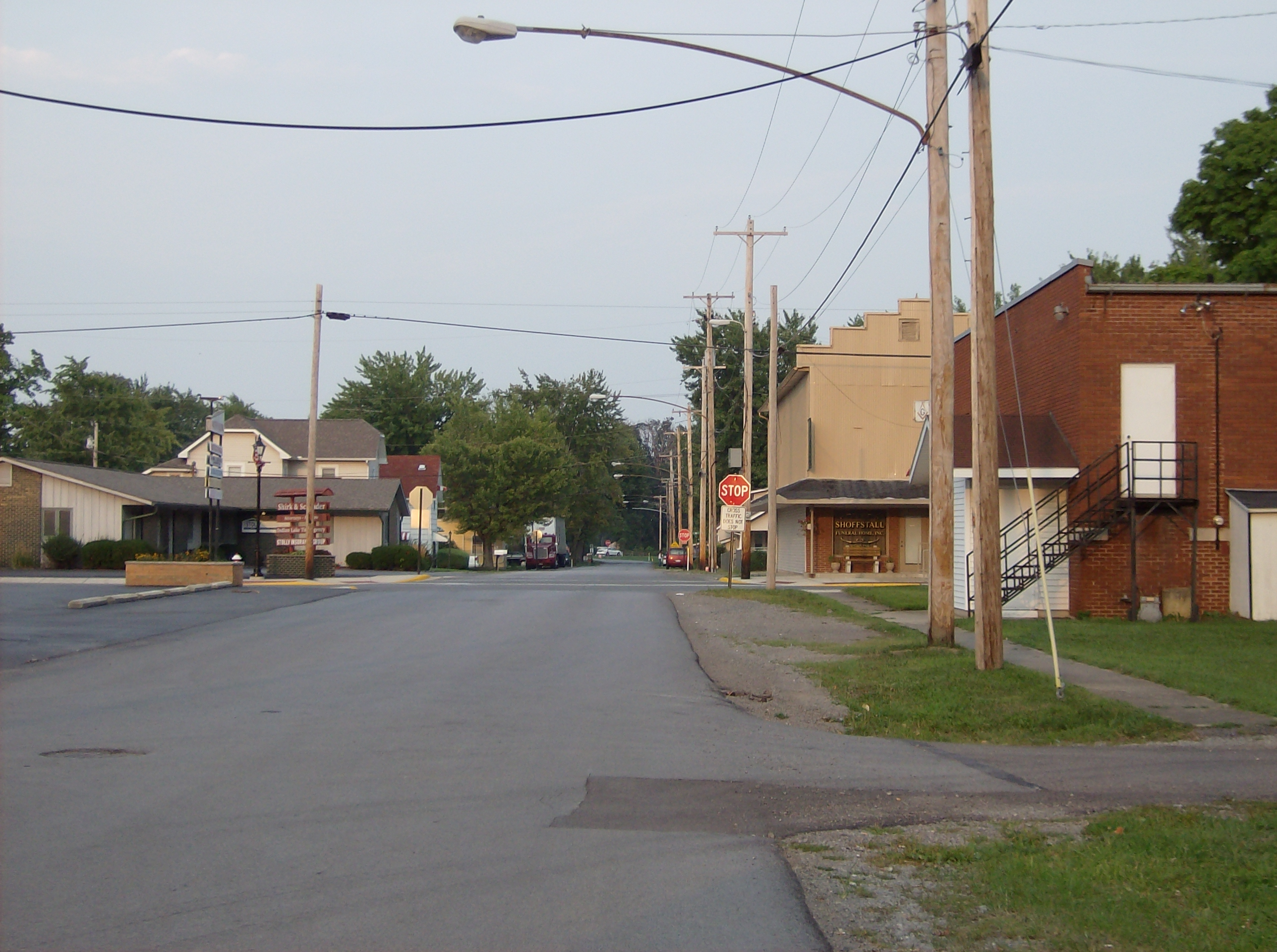 Heading southbound along Place Street in Lakeview, Ohio, United States.